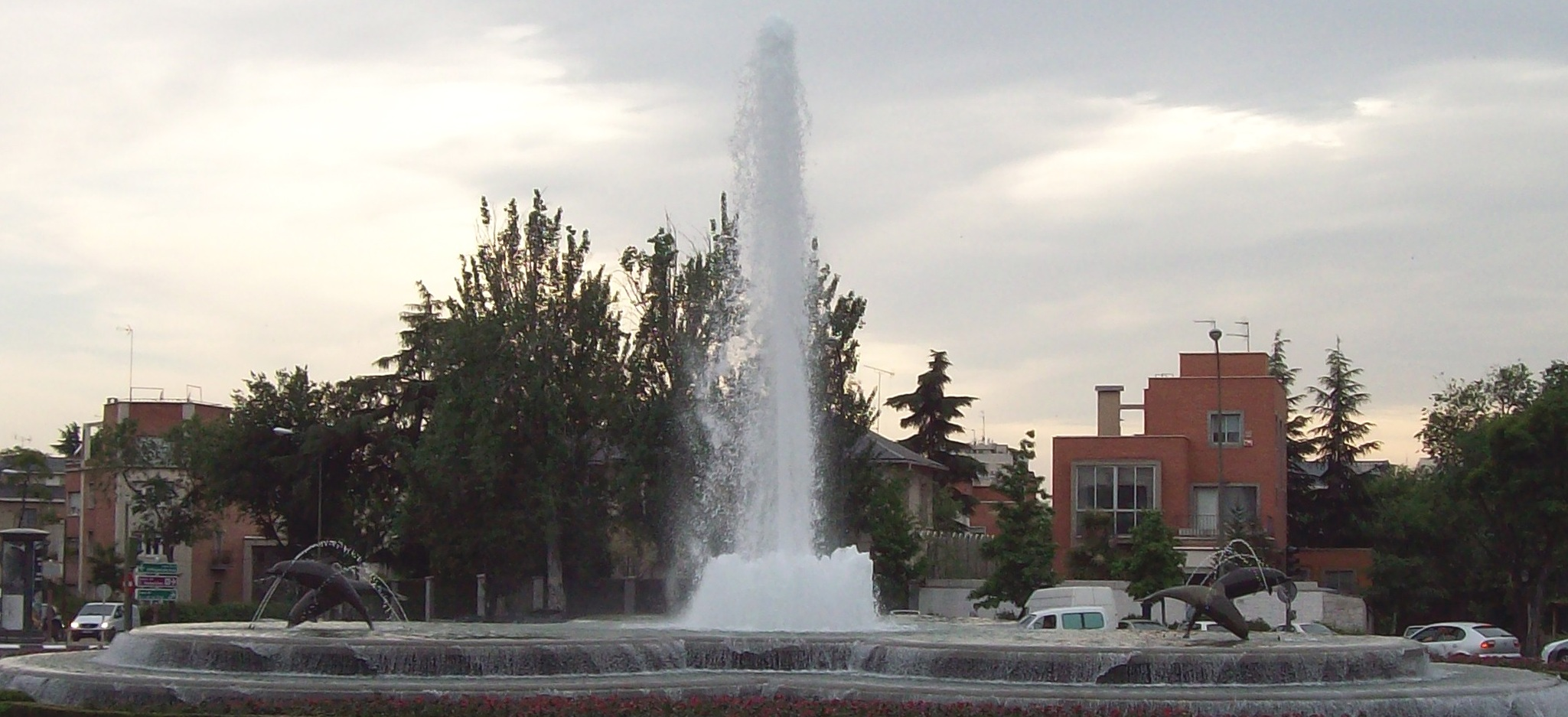 View of Plaza de la República Argentina (square) in Chamartín district in Madrid (Spain).